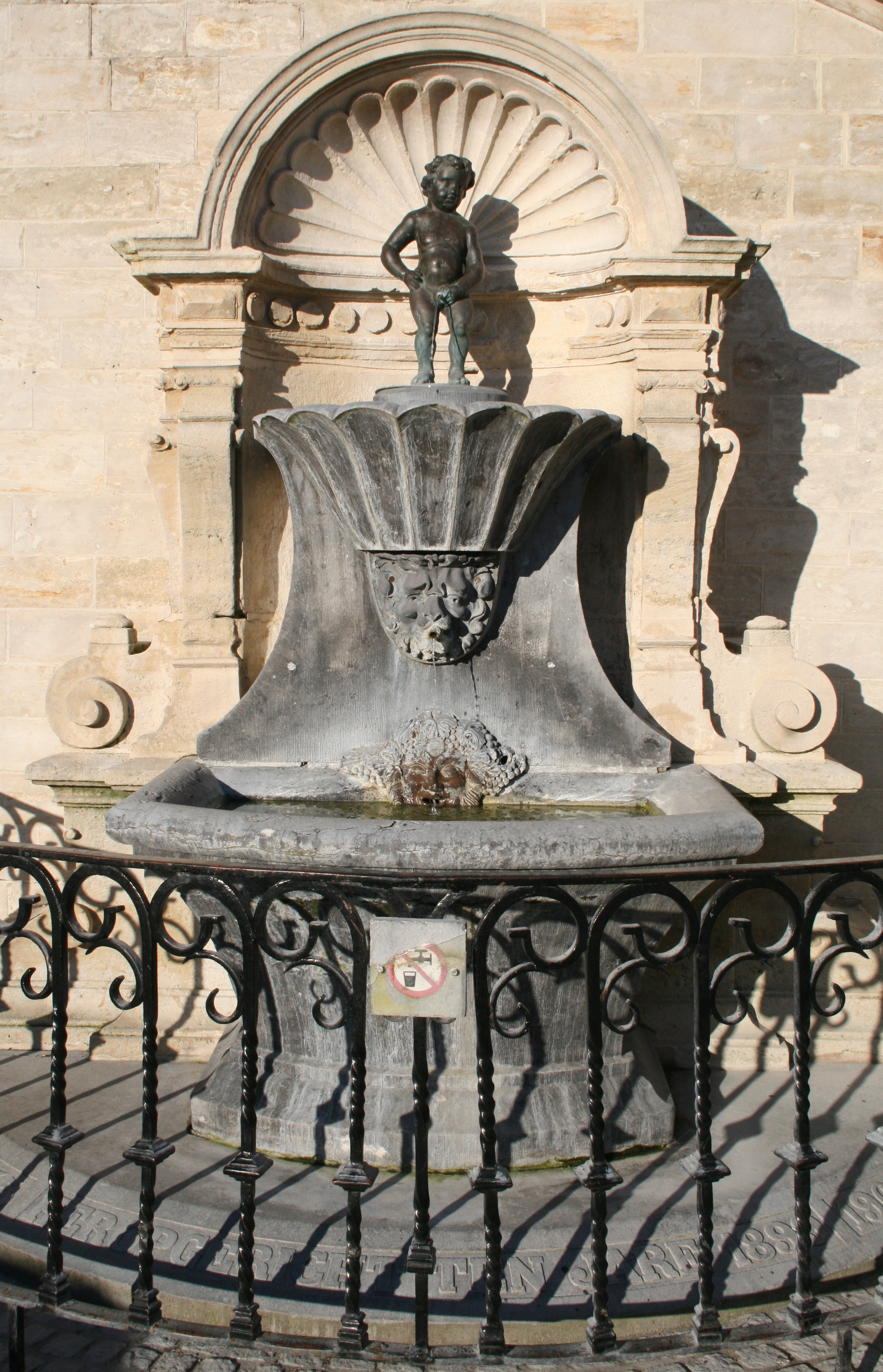 Geraardsbergen (Belgium), the fountain and the statue of "Manneke Pis" or "Manneken Pis" (1459).